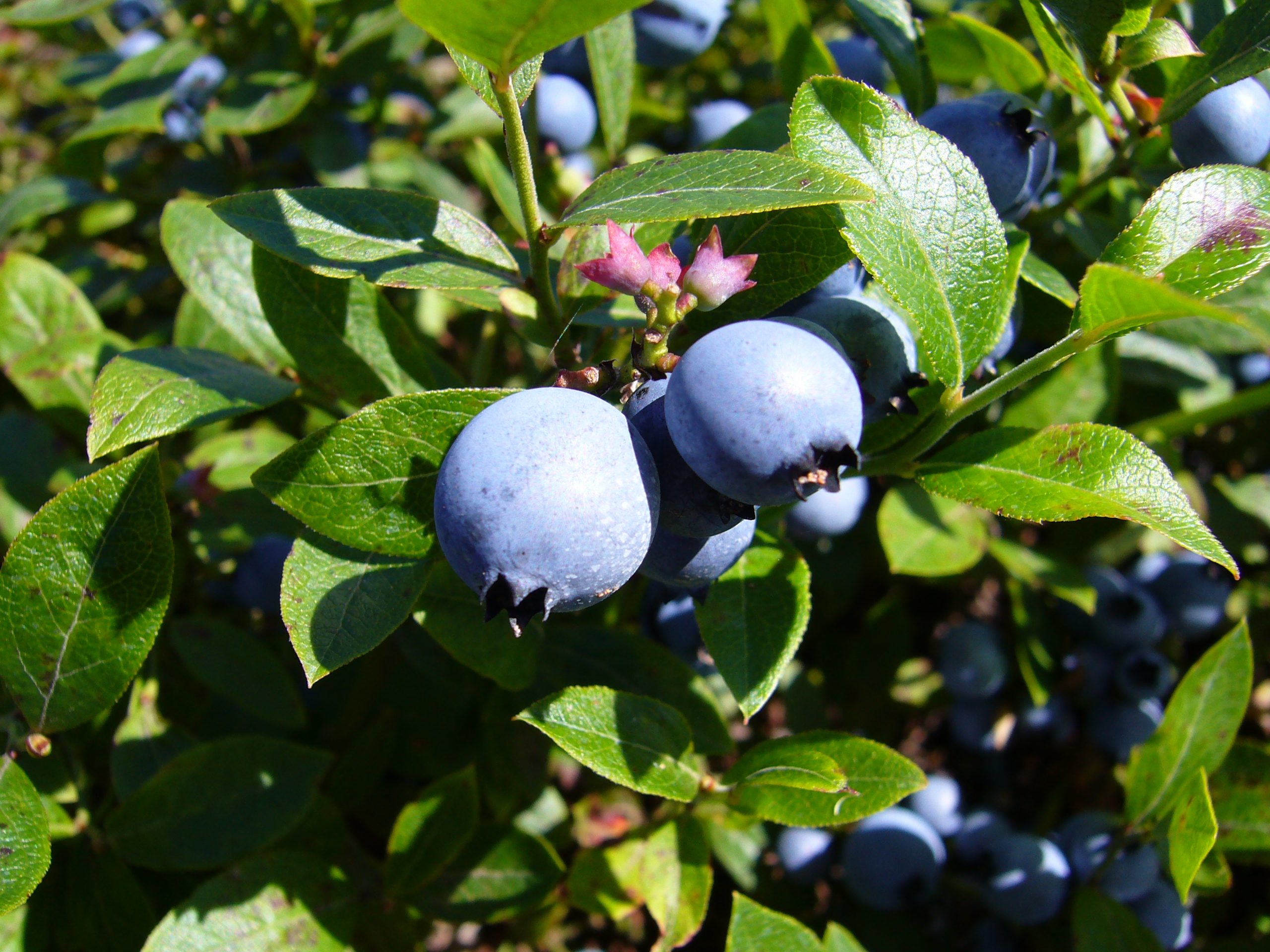 Wild blueberries in Nova Scotia are not "cultivated". Their natural required growing conditions are encouraged when canopies are removed maximizing sunlight exposure.